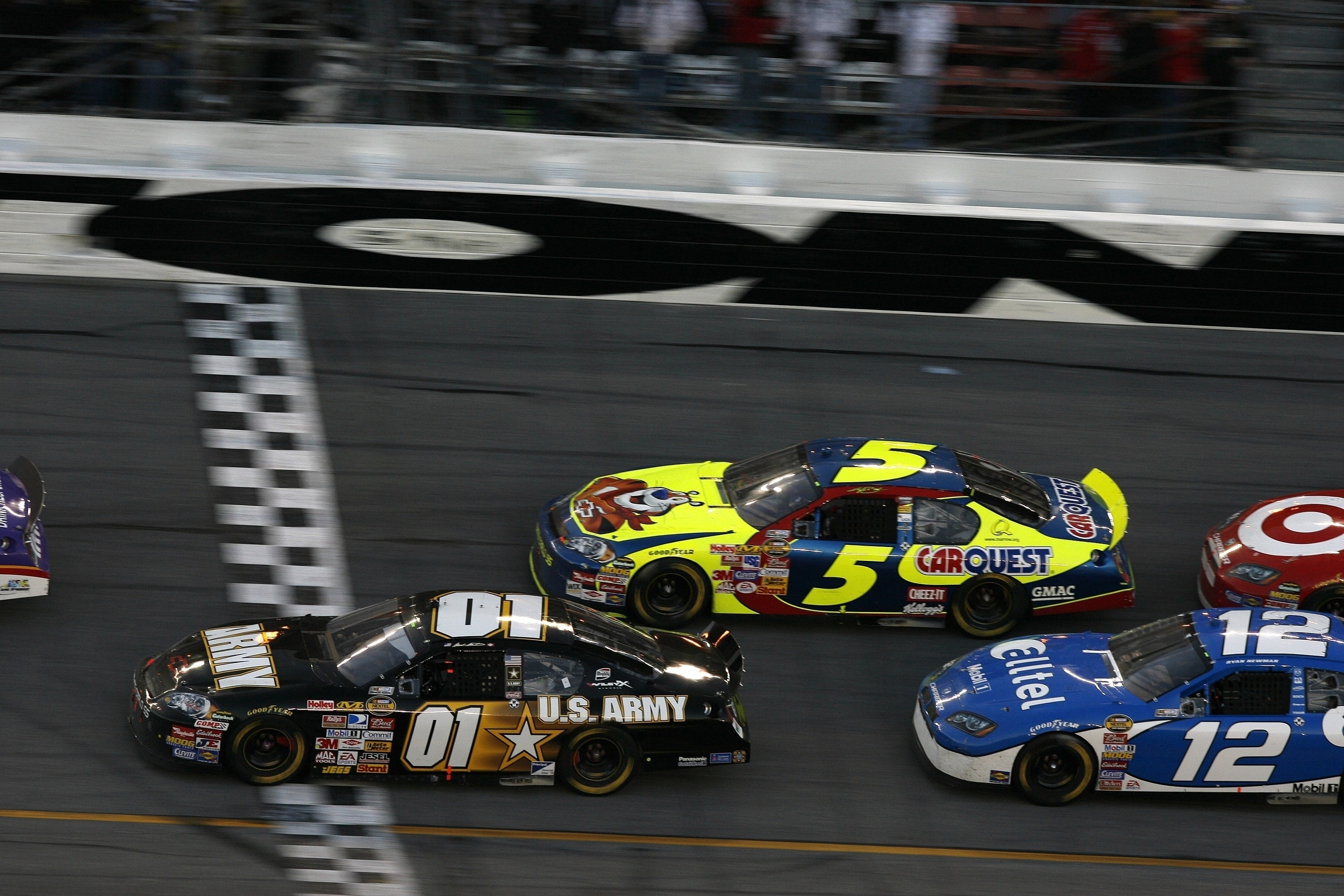 Mark Martin led 26 of the final 27 laps before being overtaken by Kevin Harvick at the finish line at Sunday's Daytona 500 at Daytona Beach, Fla. Harvick's margin of victory was 0.020 seconds. No. 01 U.S. Army Team's car leads for much of the race. "We were so close and I just hope that I gave all of our Soldiers something to cheer about," said Mark Martin. "I really wanted to win with all my heart. I'm honored to work with this Army team, and this was a great way to kick off my start with Ginn Racing." Photo by Courtesy (